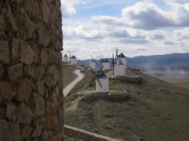 A picture of windmills as seen from a balcony of the Castle of Consuegra.